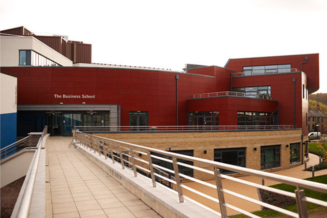 A picture of the University Of Huddersfield's new £16m Business School